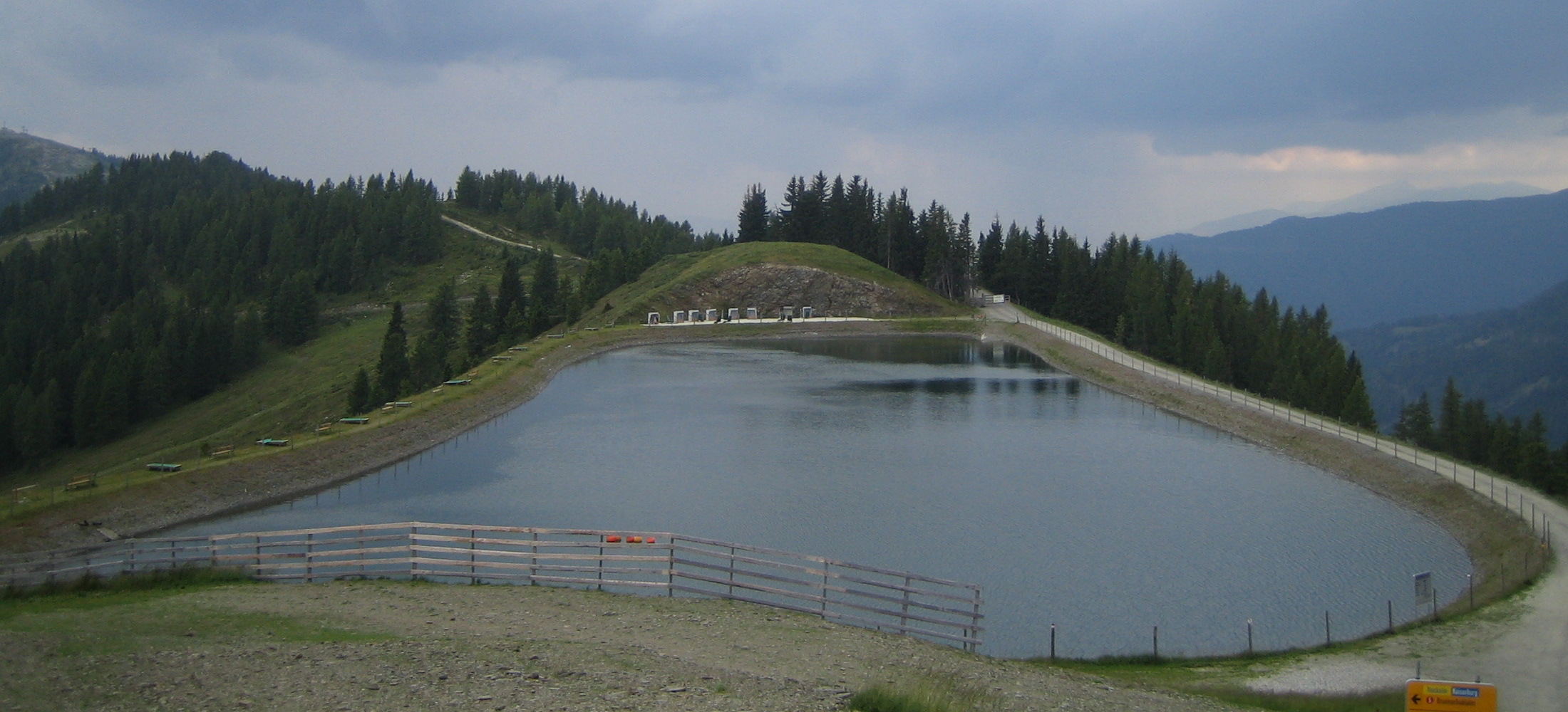 Brunnach-See near Bad Kleinkirchheim, Carinthia, Austria. Man-made reservoir used to produce snow artificially. Altitude: 1890 m Water depth: 7 m Length/width: 180m x 70 m Volume: 45.000 m³